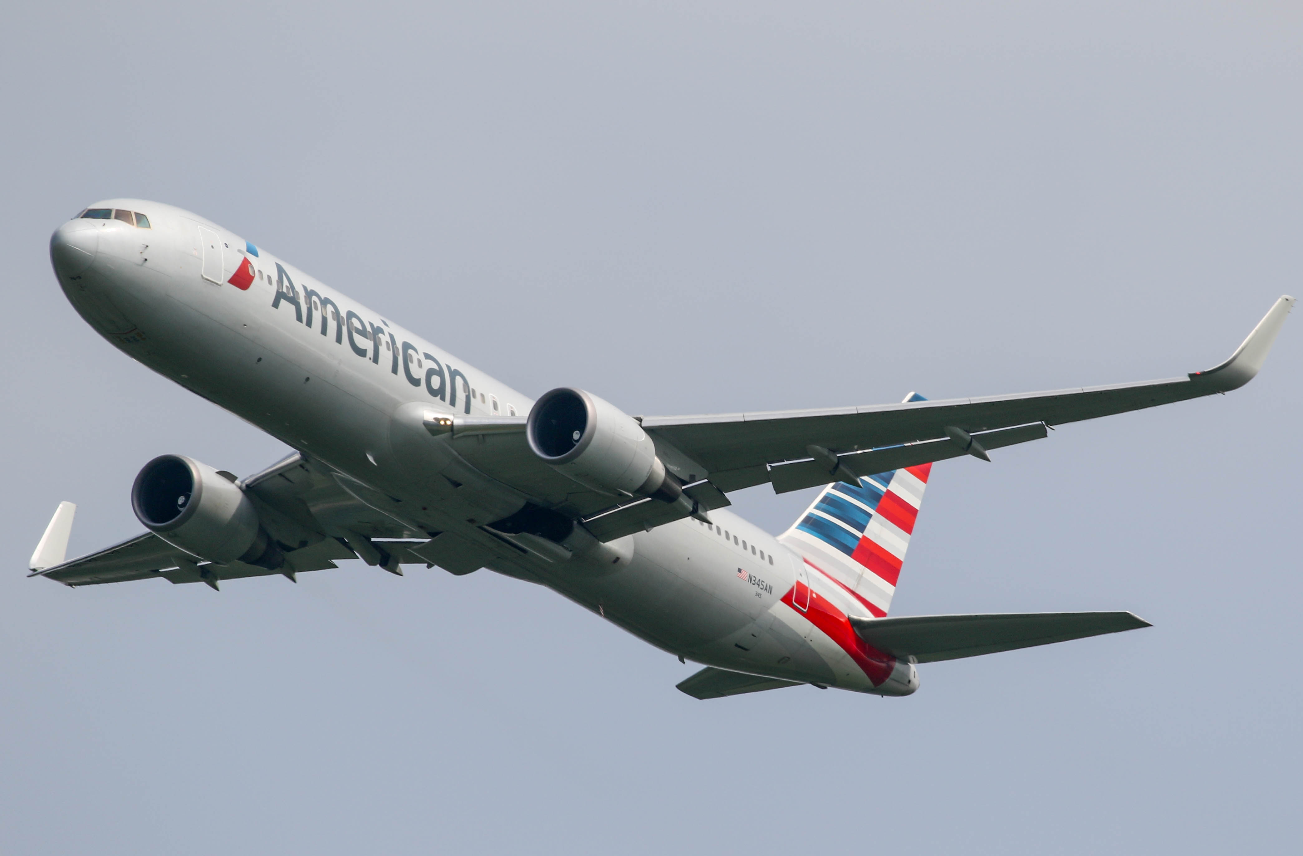 American Airlines Boeing 767 at Manchester Airport